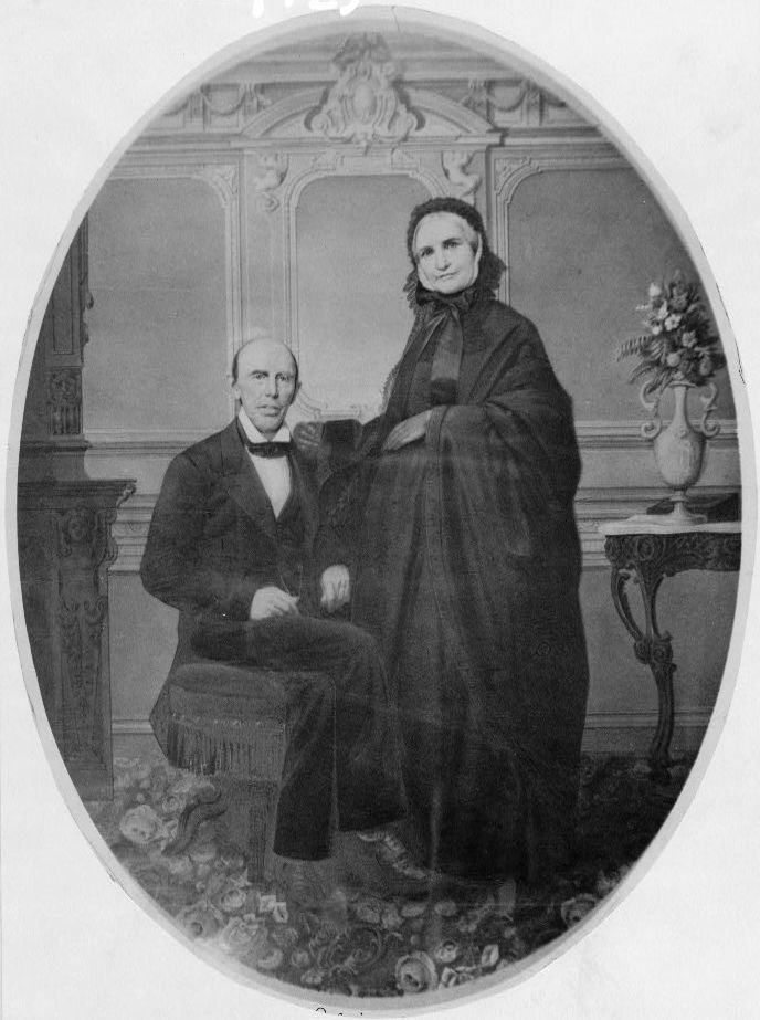 Francis Preston Blair Sr., seated and his wife standing alongside, full length portrait, as they looked at the end of the Civil War. From a colored photograph owned by Major Gist Blair said to have been taken at Silver Spring, Maryland. Location: Prints and Photographs Division, reproduction number LC-USZ6-1725